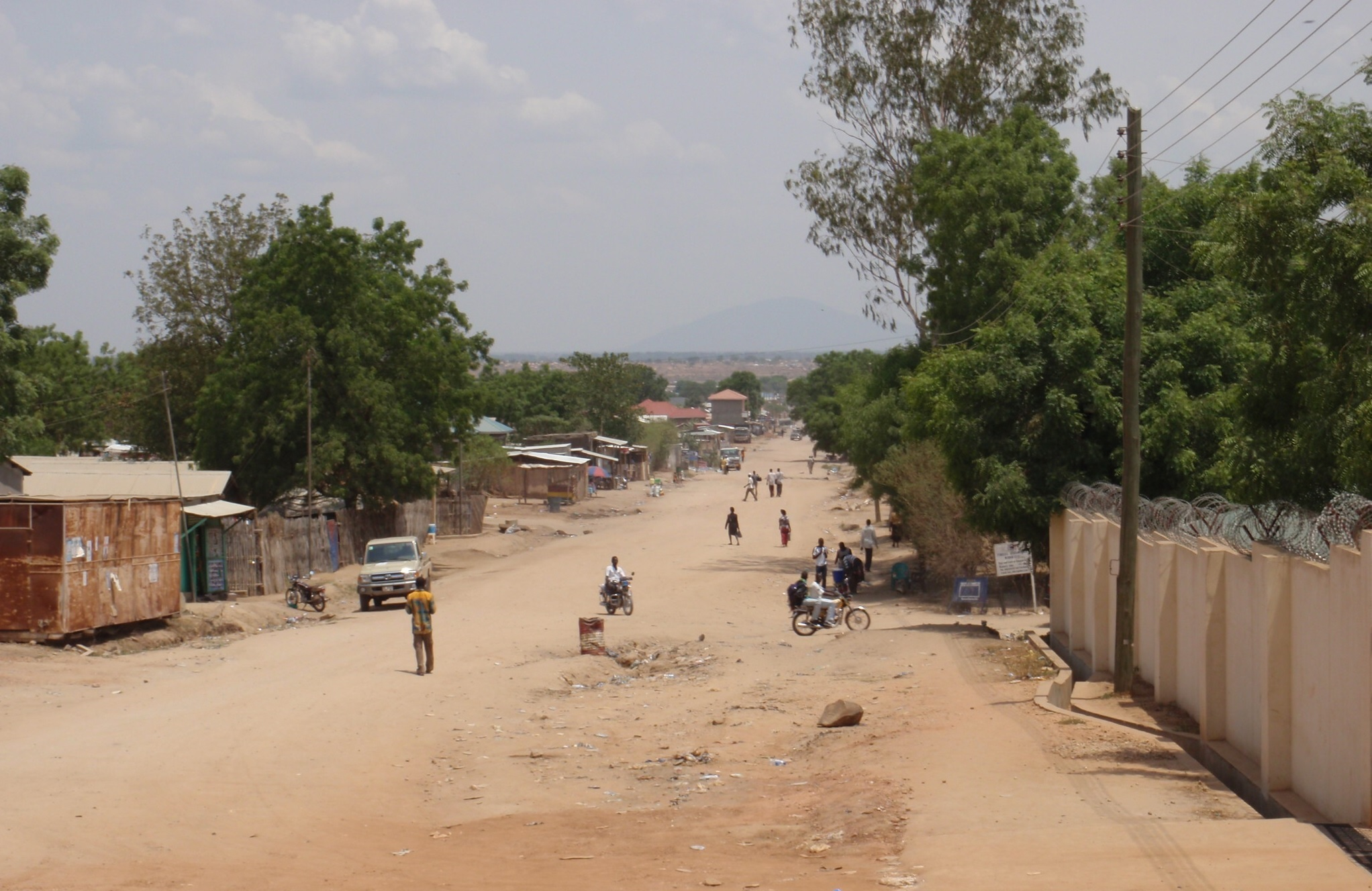 Street in Juba town Hai-Amarat district